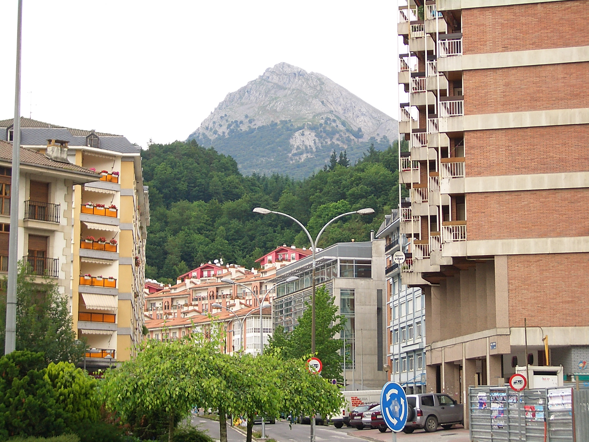 On a street in the center of Arrasate/Mondragon